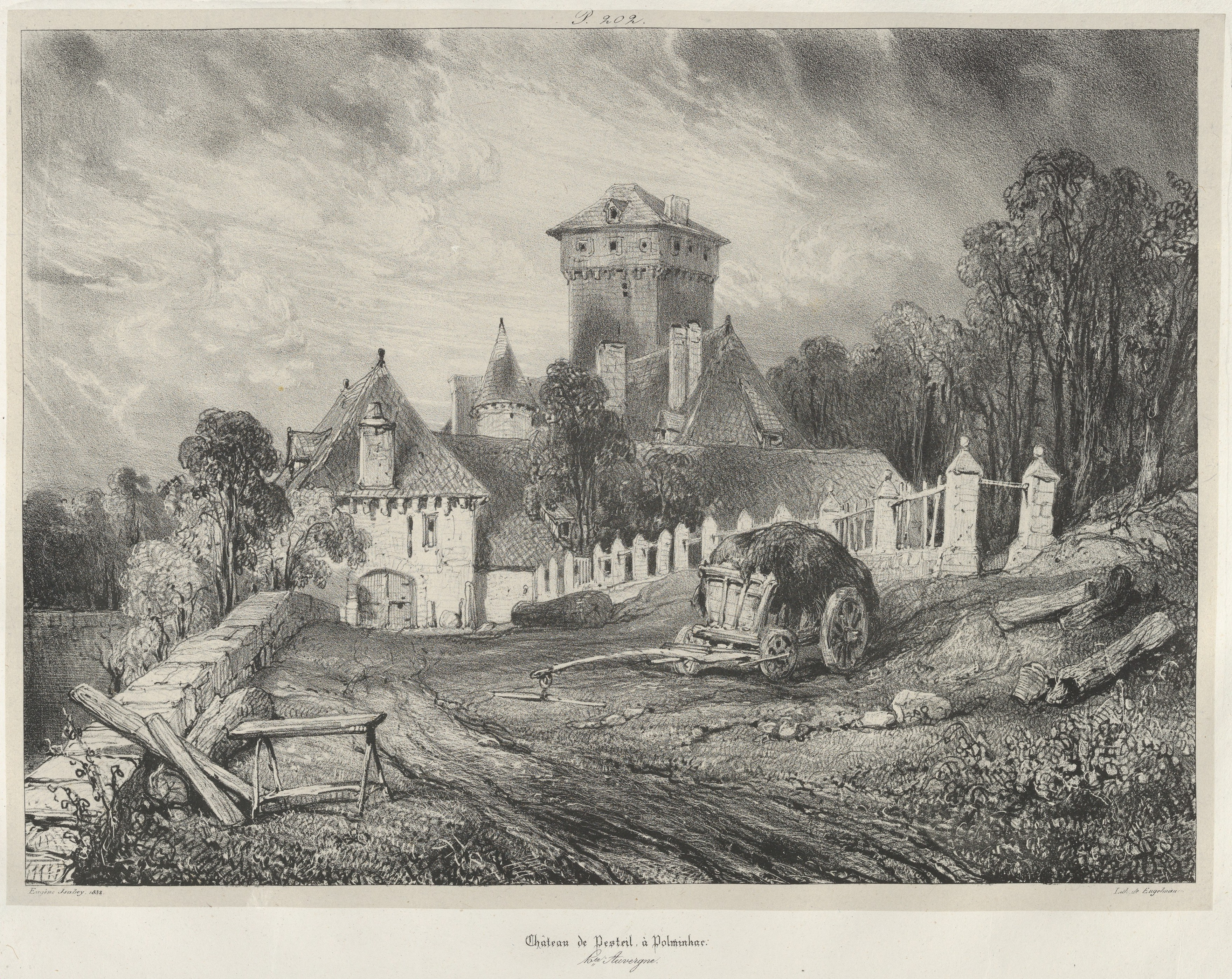 Print; Prints